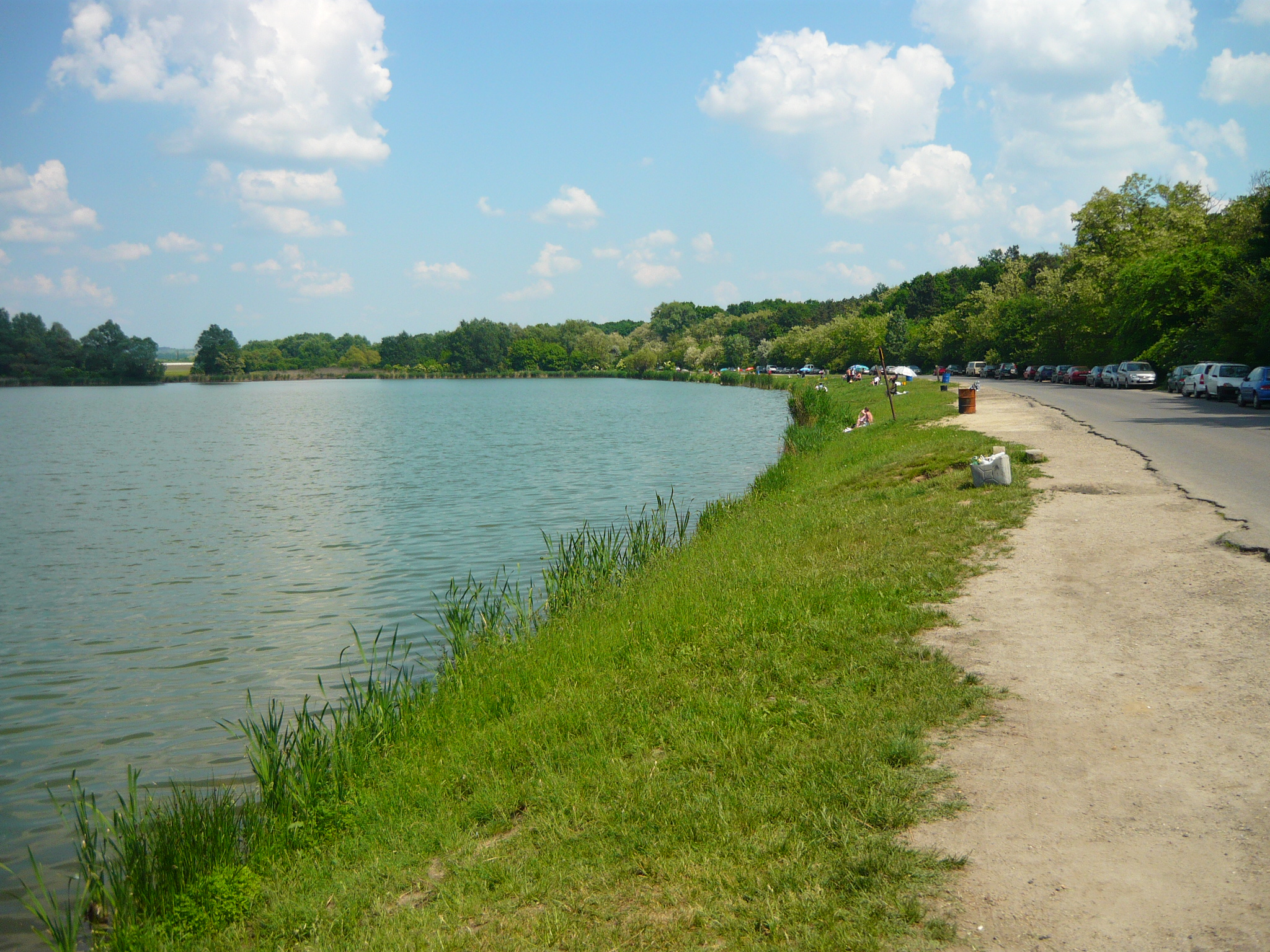 Lake Naplás in May